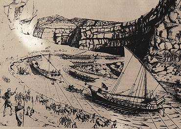 Galeas for Montes - Transportation of Venetian galleys on Lake Loppio Vèneto: Galeas per Montes - Trasporto de le galee venesiane sol Lago de Lopio